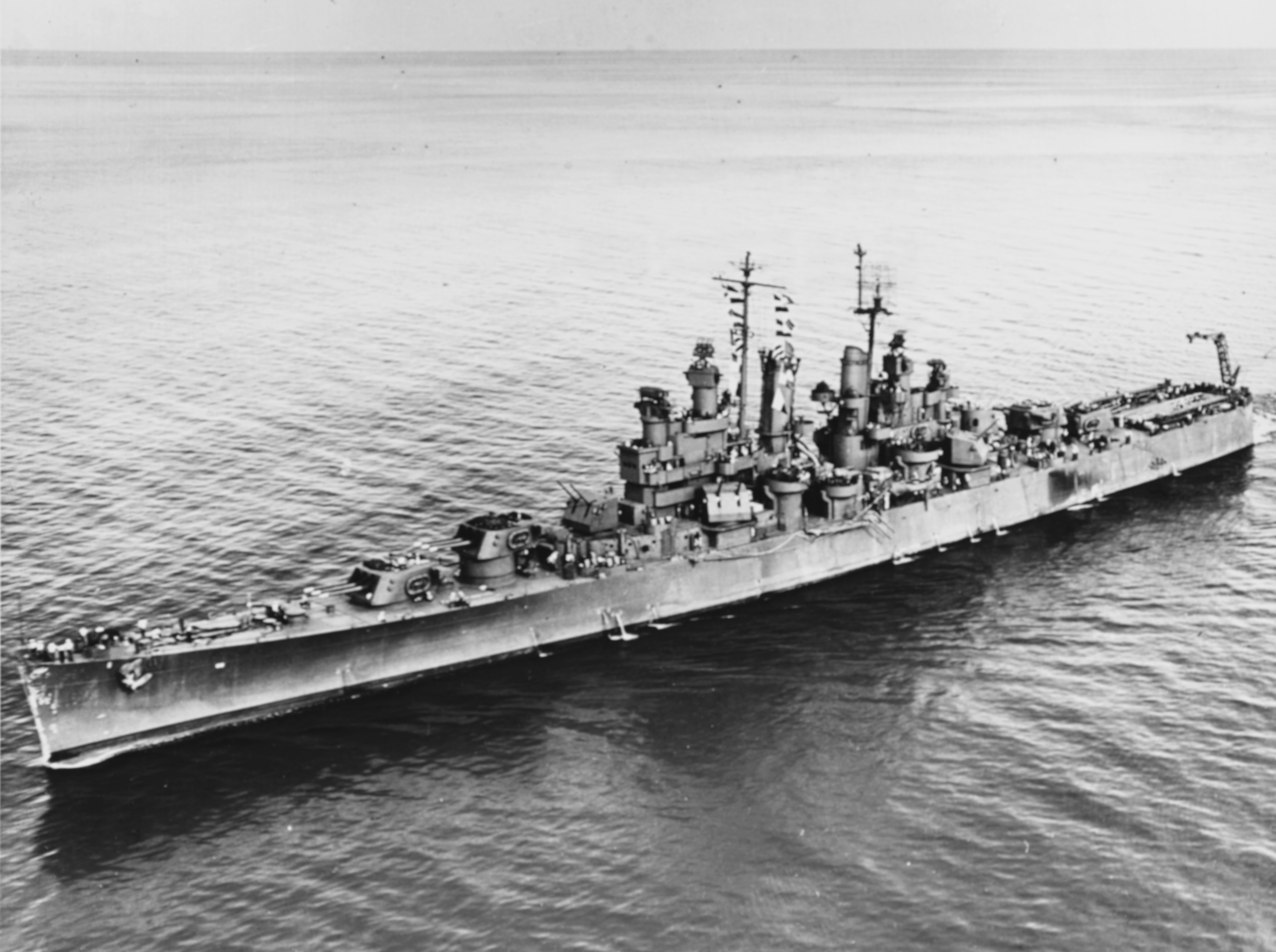 The U.S. Navy light curiser USS Biloxi (CL-80) underway at sea. The photo is dated 19 February 1945, but was probably taken during the ship's shakedown cruise, circa in October 1943.